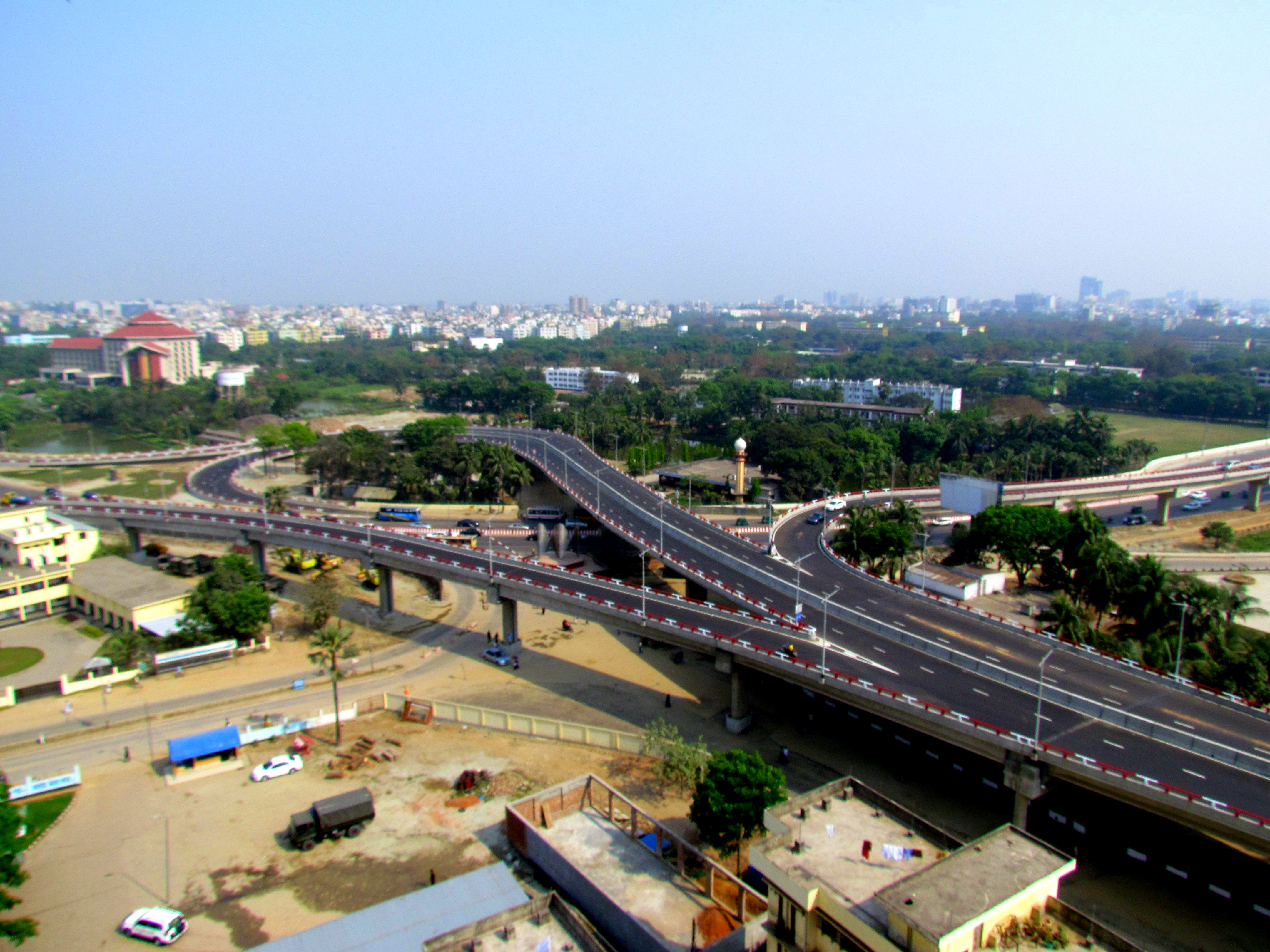 flyover